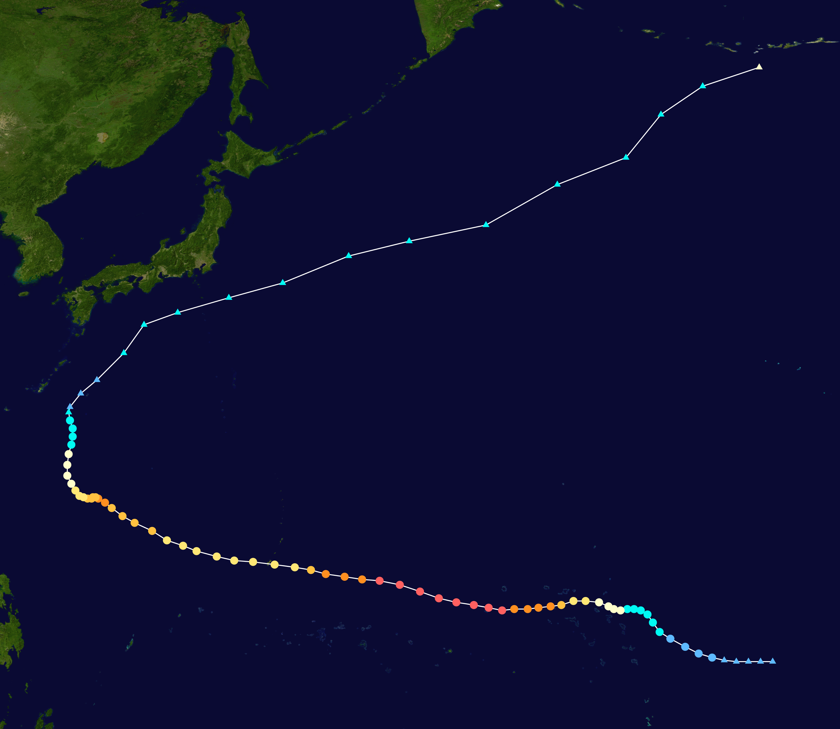 Typhoon Gay (1992) track. Uses the color scheme from the Saffir-Simpson Hurricane Scale.